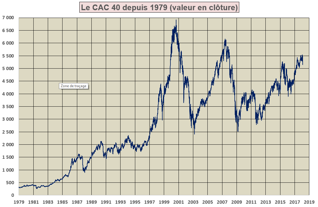 CAC 40 from January 1st, 1979 to February 8, 2018 (daily closing values).